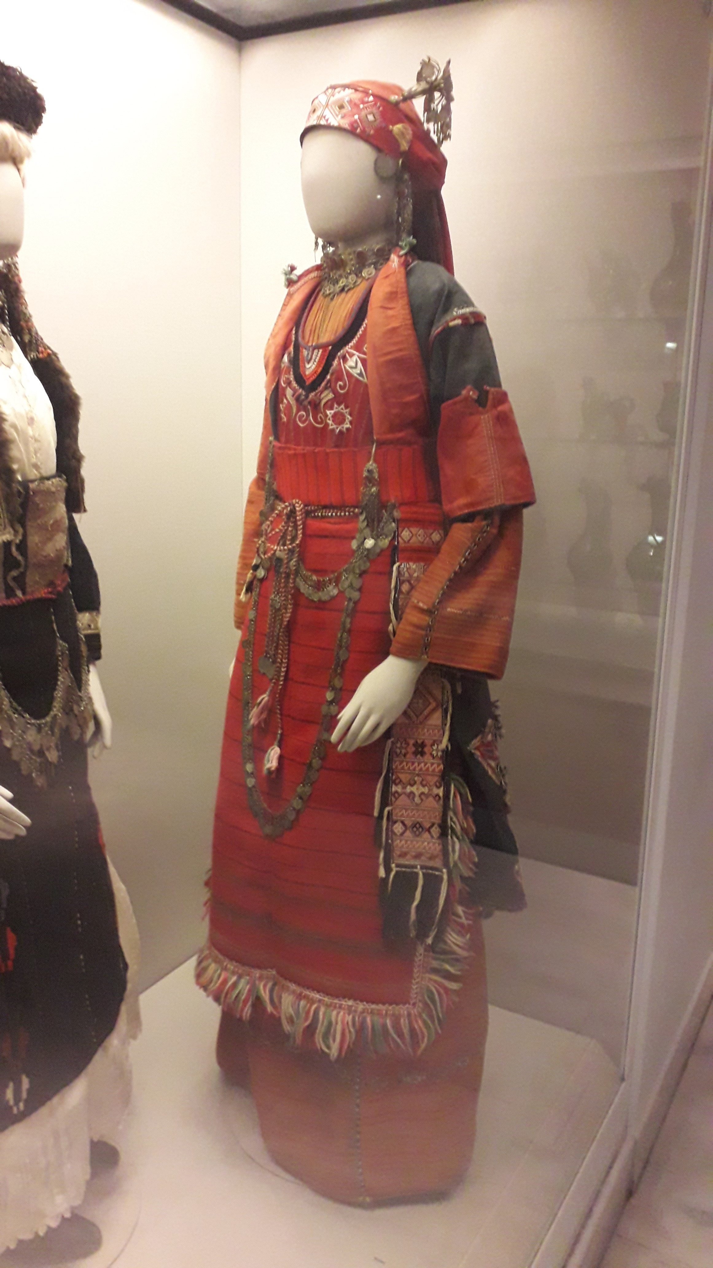 Costume from Baldzha